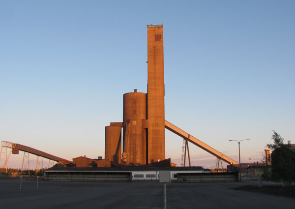 Pyhäsalmi mine, Finland. Mining has been opened in year 1962 and now it's 1,4 km deep. It produces copper, zinc and pyrite.